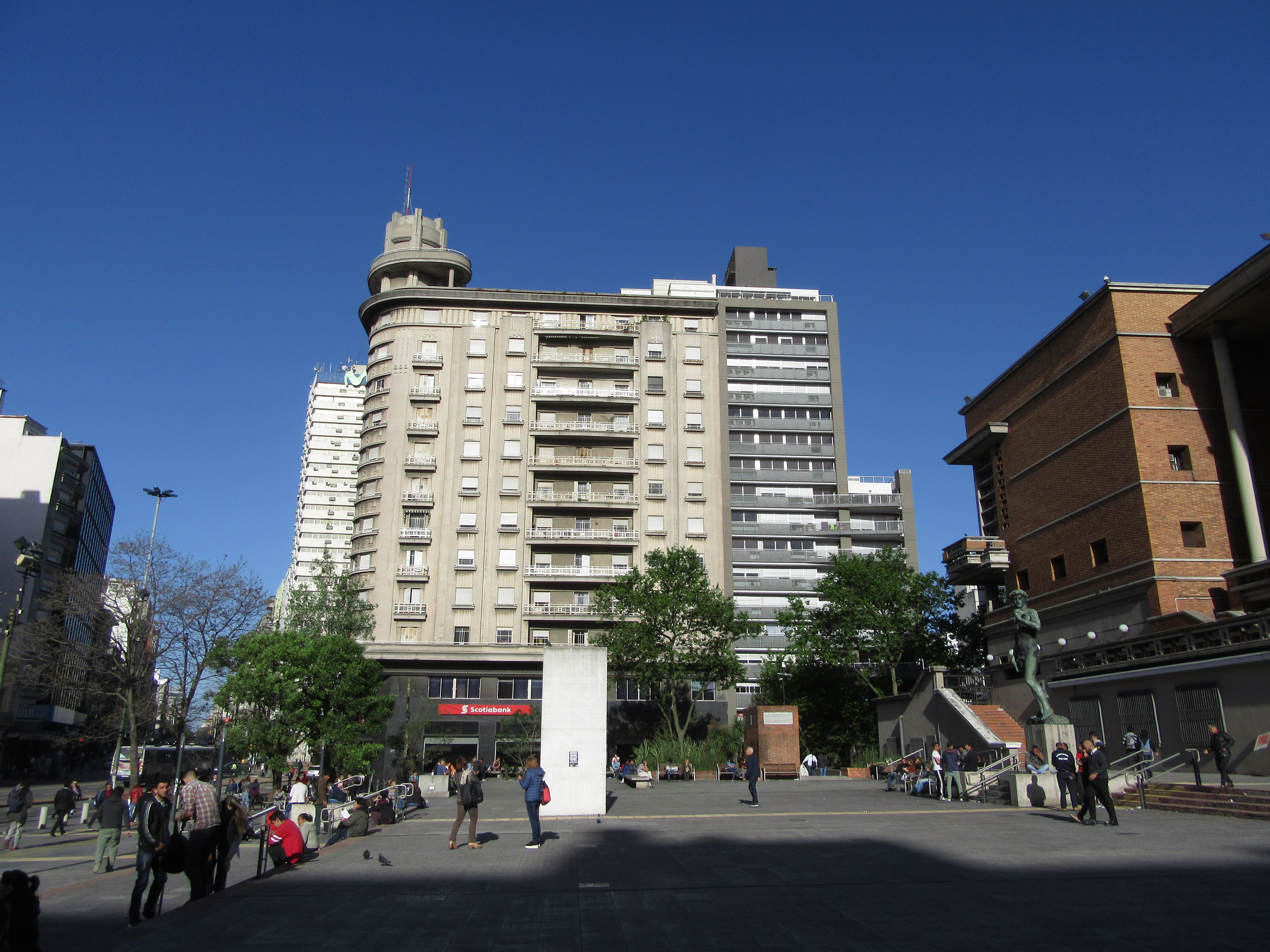 Palacio Tapie. Arquitecto Francisco Vázquez Echeveste. Ubicación Santiago de Chile 1336 esquina avenida 18 de Julio. Montevideo. Uruguay.